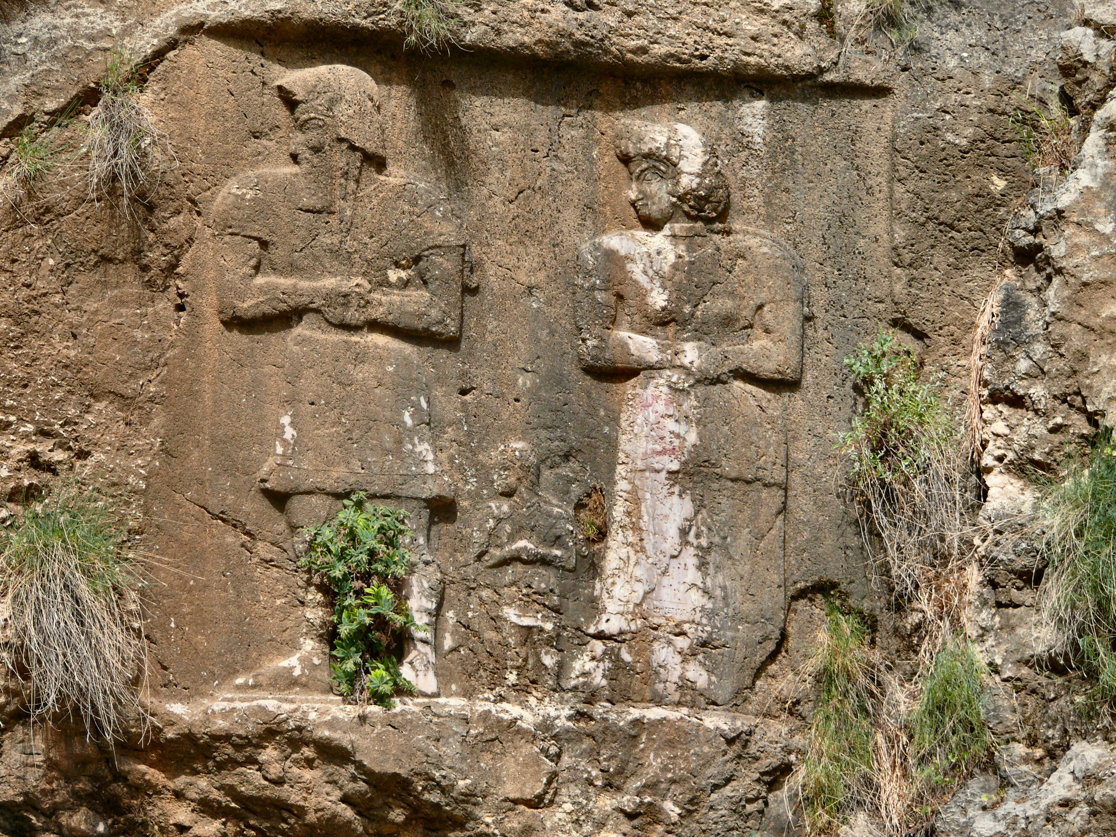 Elamite rock relief said Eshkaft-e Salman II depicting a religious office at Eshkaft-e Salman (Salomon’s cave), also known as the “temple of Tarisha”. It was discovered in the 19th century by the british orientalist traveller and archaeologist Austen Henry Layard. The relief is the 2nd of a serial of 4 carved in and around the spring located in the cave by Elamite King Hanni , 8-7th centuries BCE. Religious theme is a classic in Elamite rock reliefs, and it is not surprising to find such reliefs around a spring as water was holy. But the first and second reliefs of the site are also remarquable for having a family theme with the very first representations of a queen : from the left to the right, it shows King Hanni, one of his sons, then the queen. All After Elamite times, no queen will be represented on any rock relief until Sasanian king Bahram II and the second Persian empire. Cuneiform inscriptions written in Neo-Elamite explains the scene. All the characters look in the direction of the spring, and are represented joining the hands in a humble attitude. City of Izeh, Khuzestan province, Iran, April 2008.